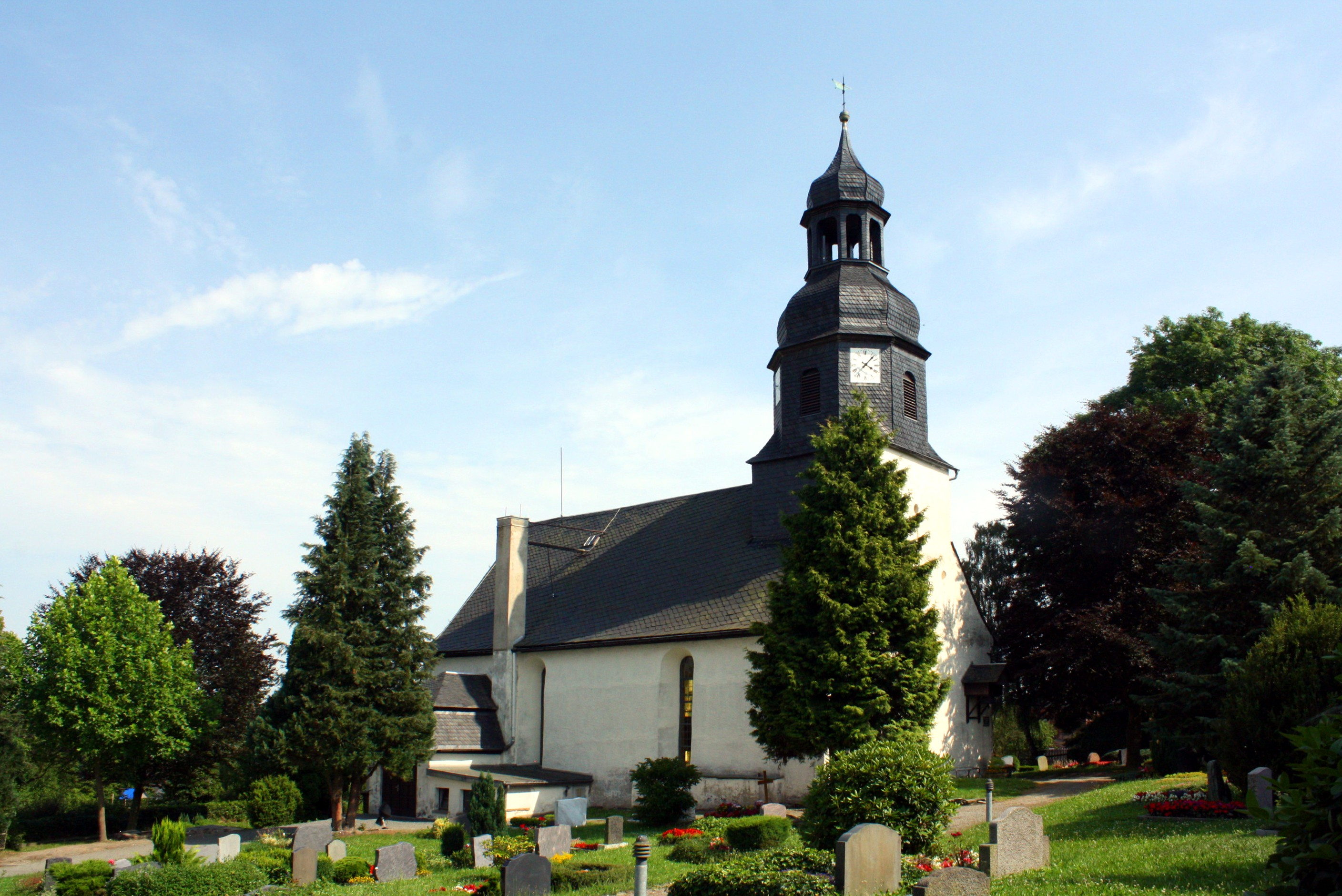 Church in Greiz-Caselwitz